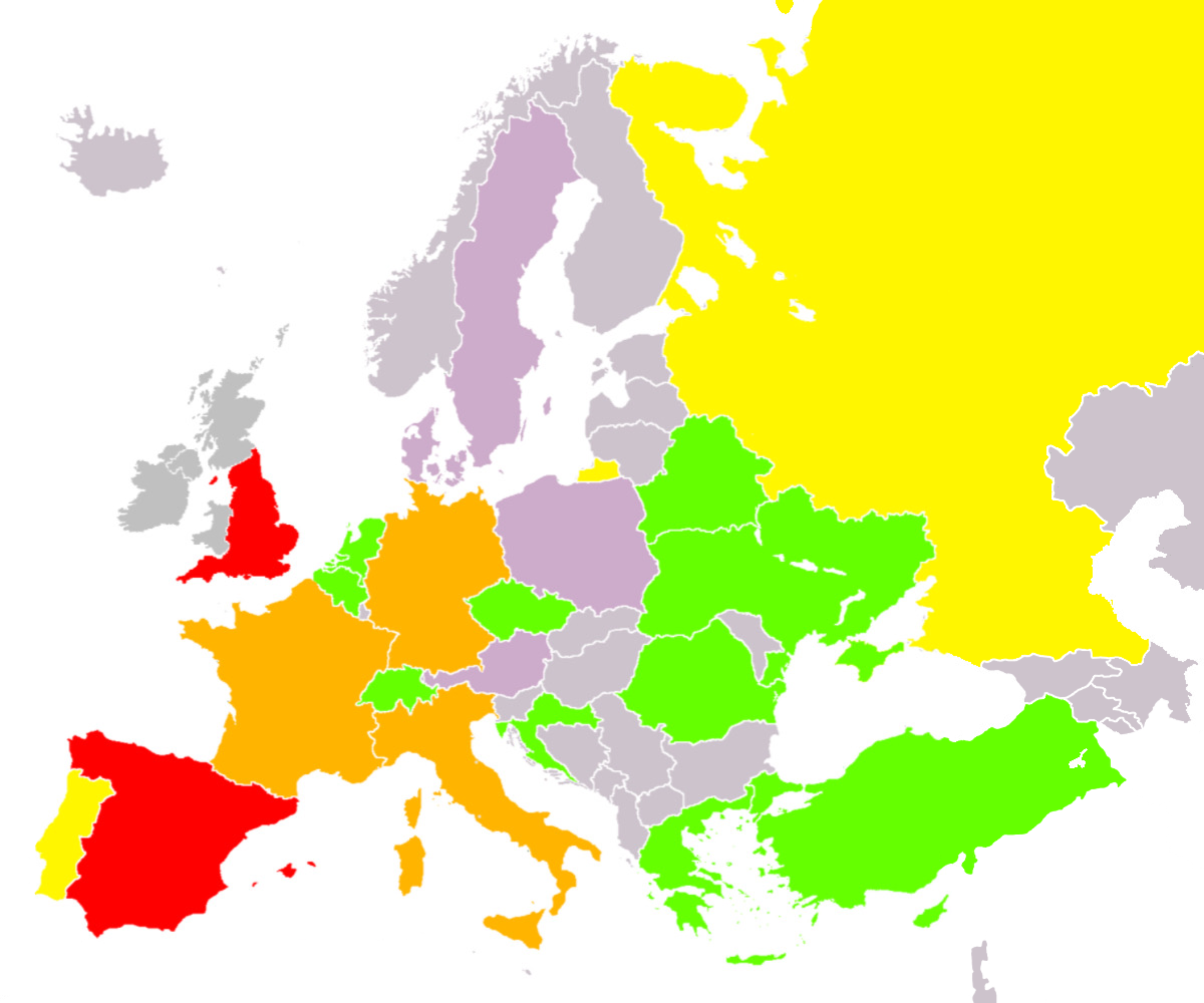 Map of countries which have their representatives in the group stage of UEFA Champions League. 4 representatives 3 representatives 2 representatives 1 representatives At least one representative in the playoffs